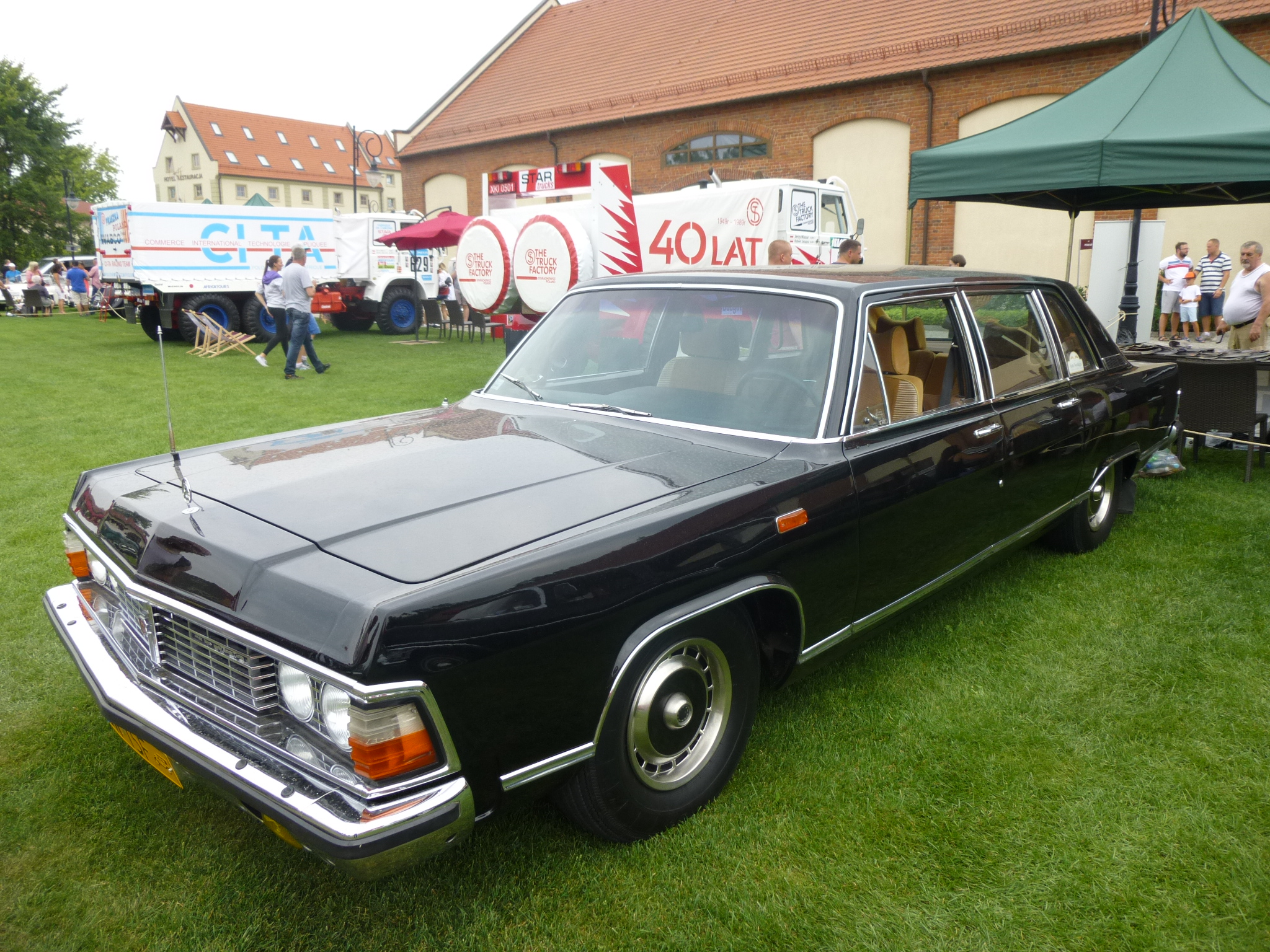 GAZ-14 Chaika at 2015 Motoclassic Wrocław